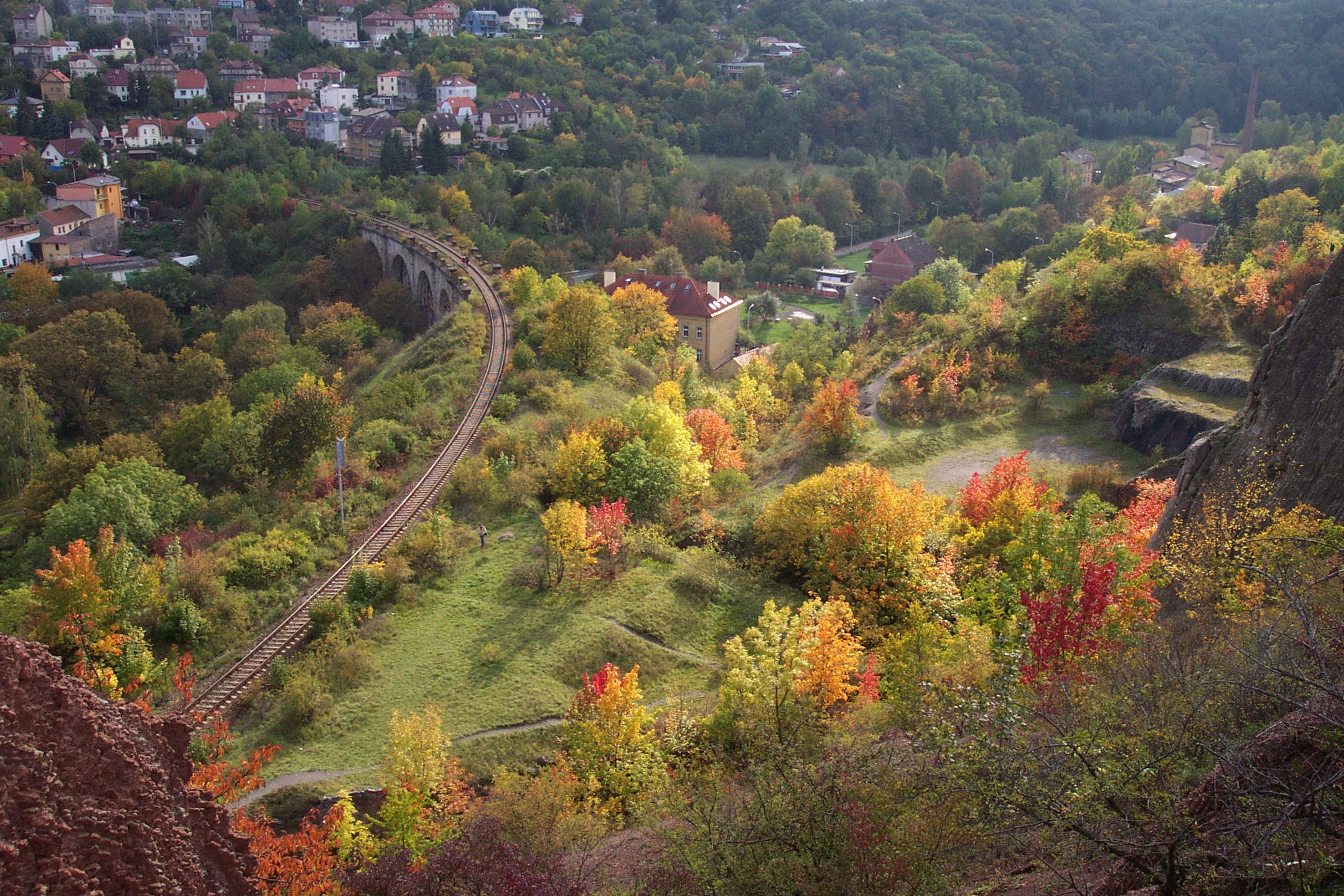 Prague, Hlubočepy, local rail track area